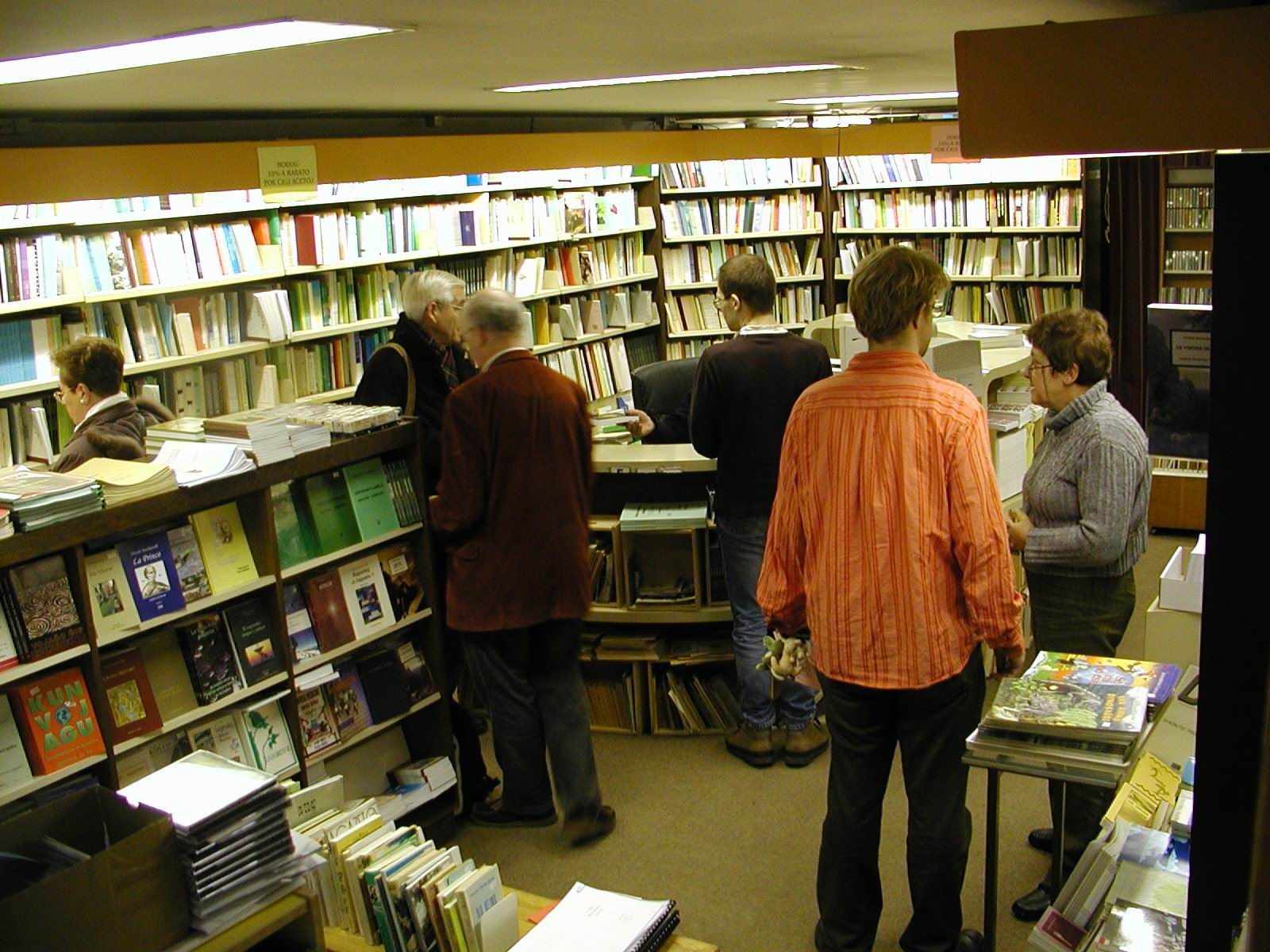 Bookshop of the UEA central office in Rotterdam.